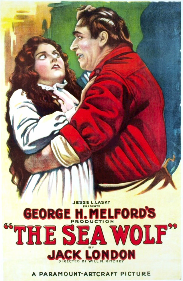 Poster for the American film The Sea Wolf (1920) with Mabel Julienne Scott and Noah Beery.